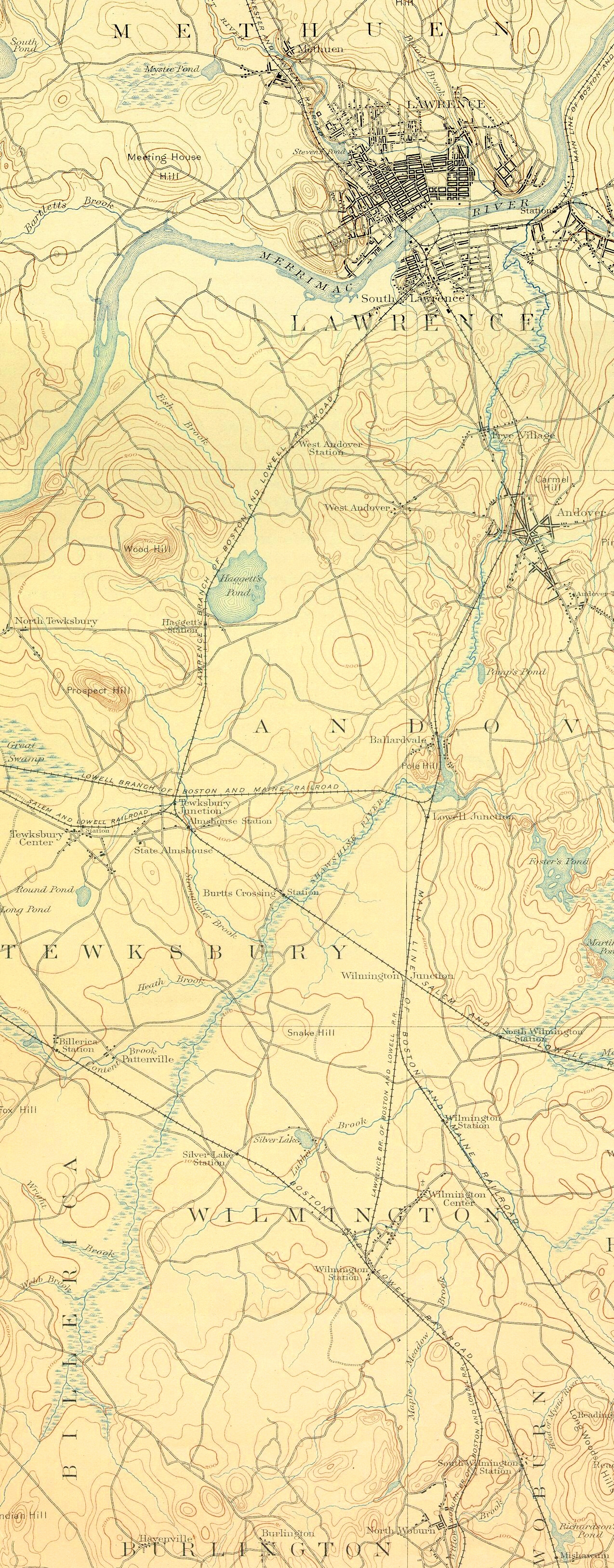 Map of Shawsheen River, also spelled Shawshine River (Massachusetts).